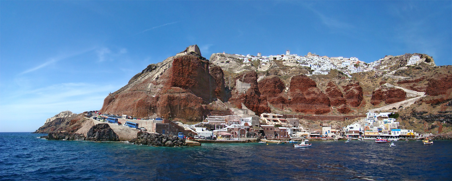 Ammoudi Bay at the feet of Oia, Santorini, Greece.